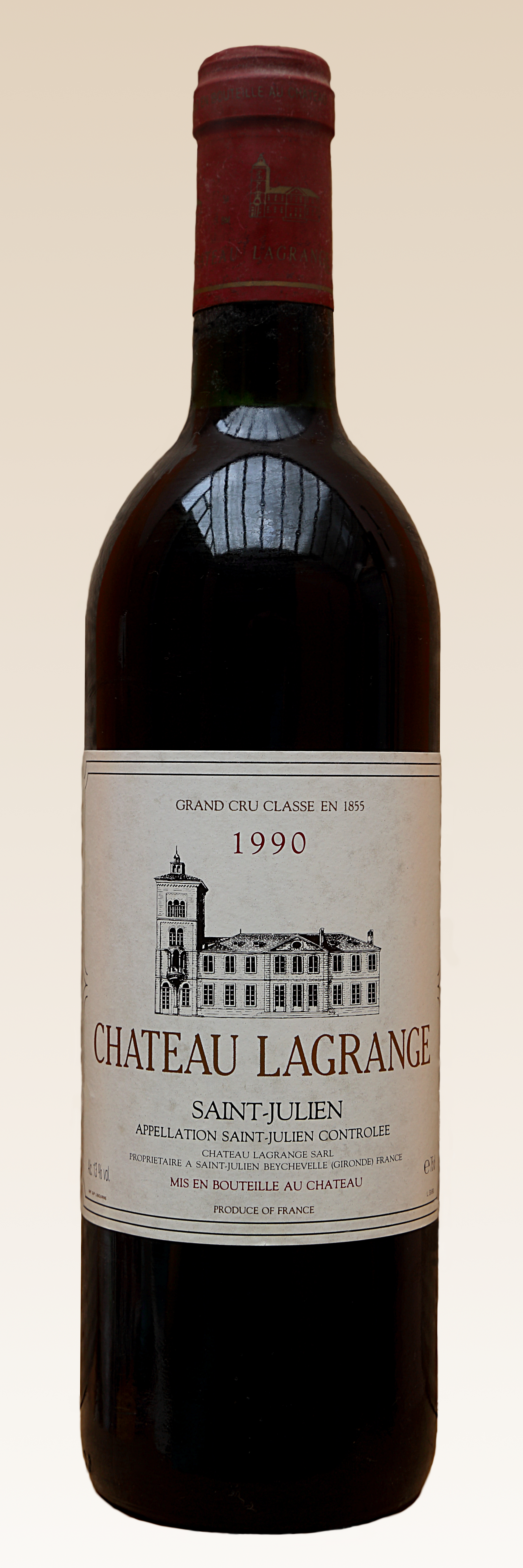 Bottle of Château Lagrange 1990, picture taken in Belgium.